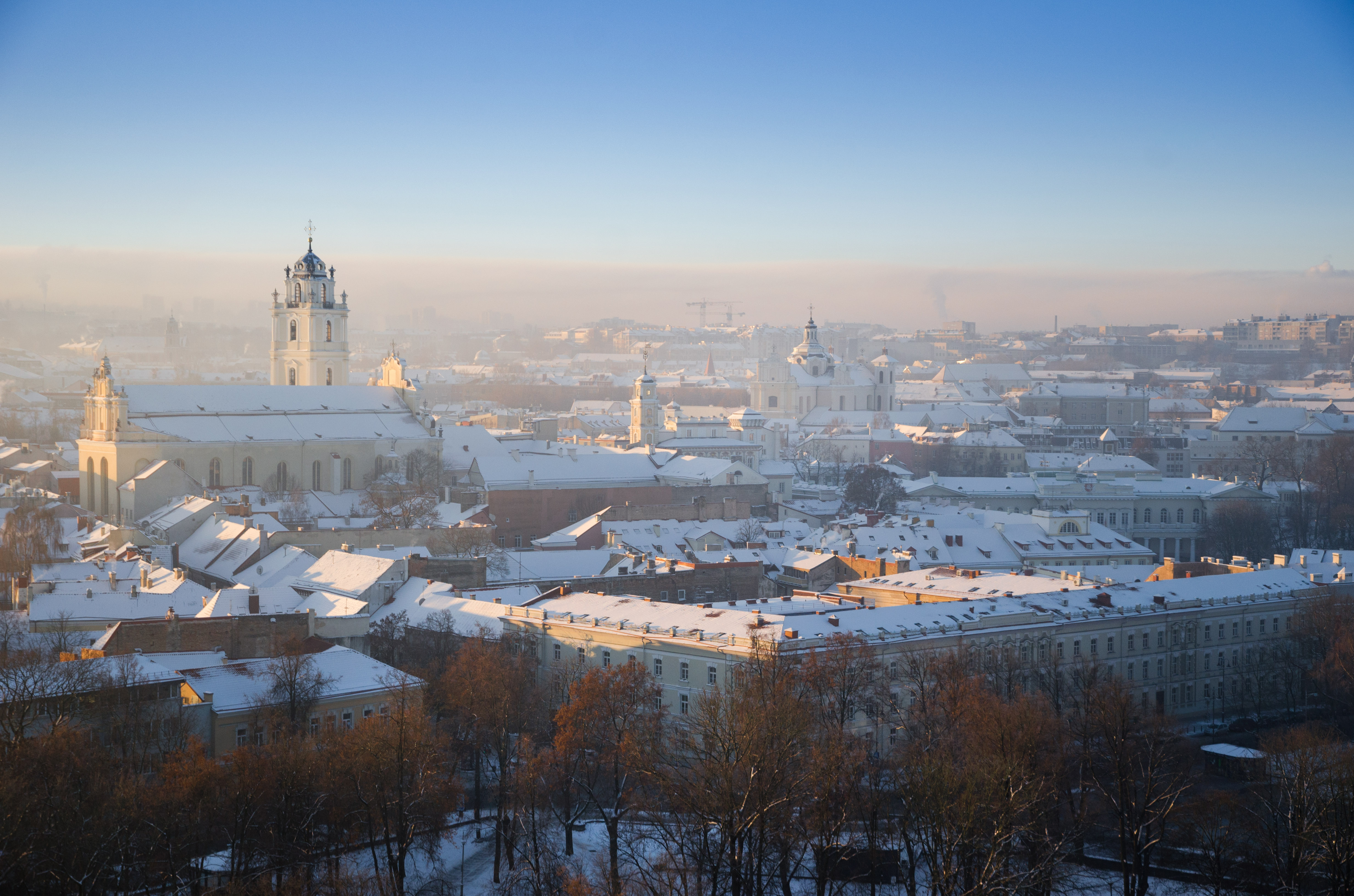 Foggy winter sunrise in Vilnius, Lithuania.